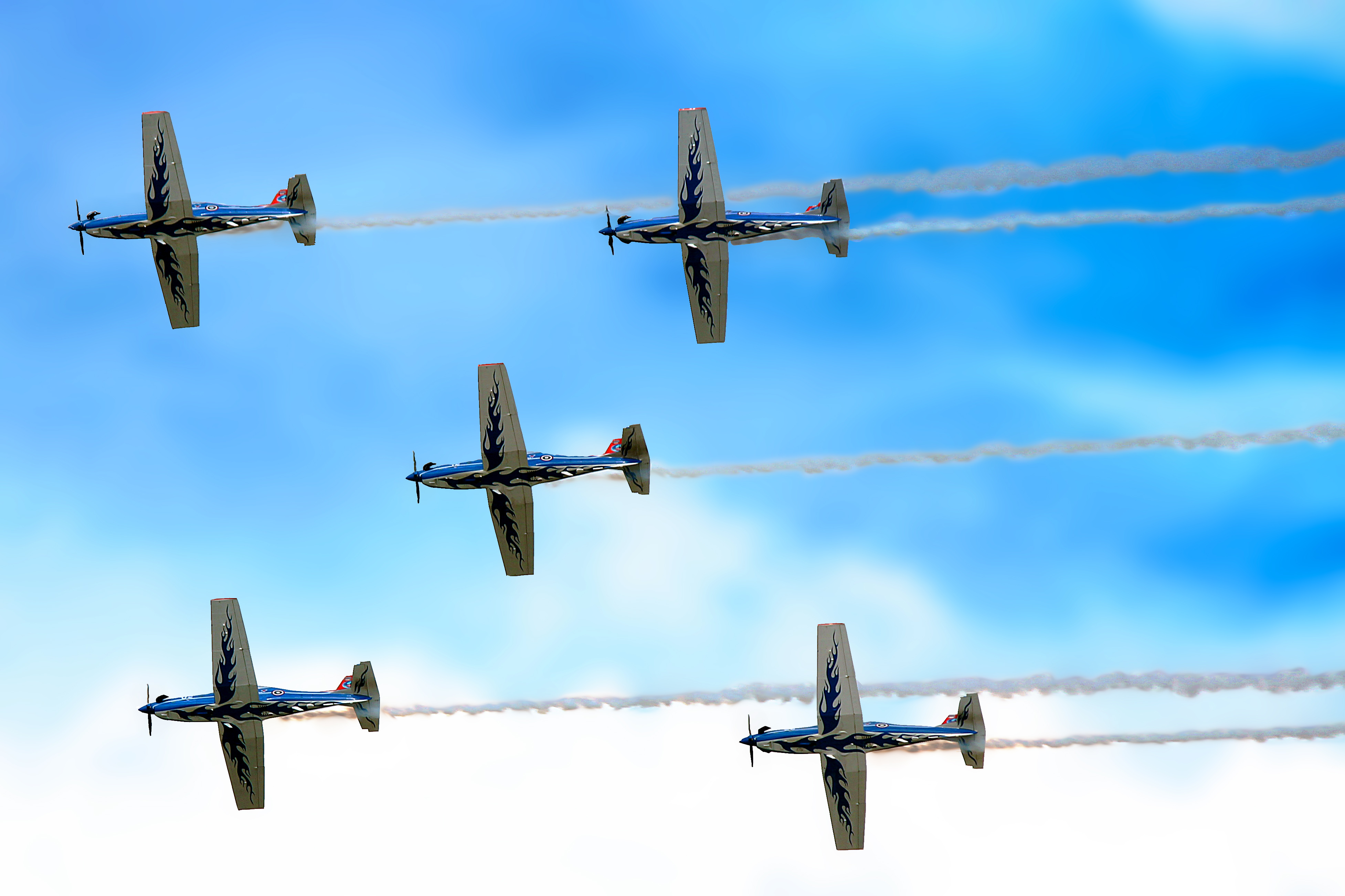 RTAF Blue Phoenix Air Show at Don Maung, Bangkok , 2012